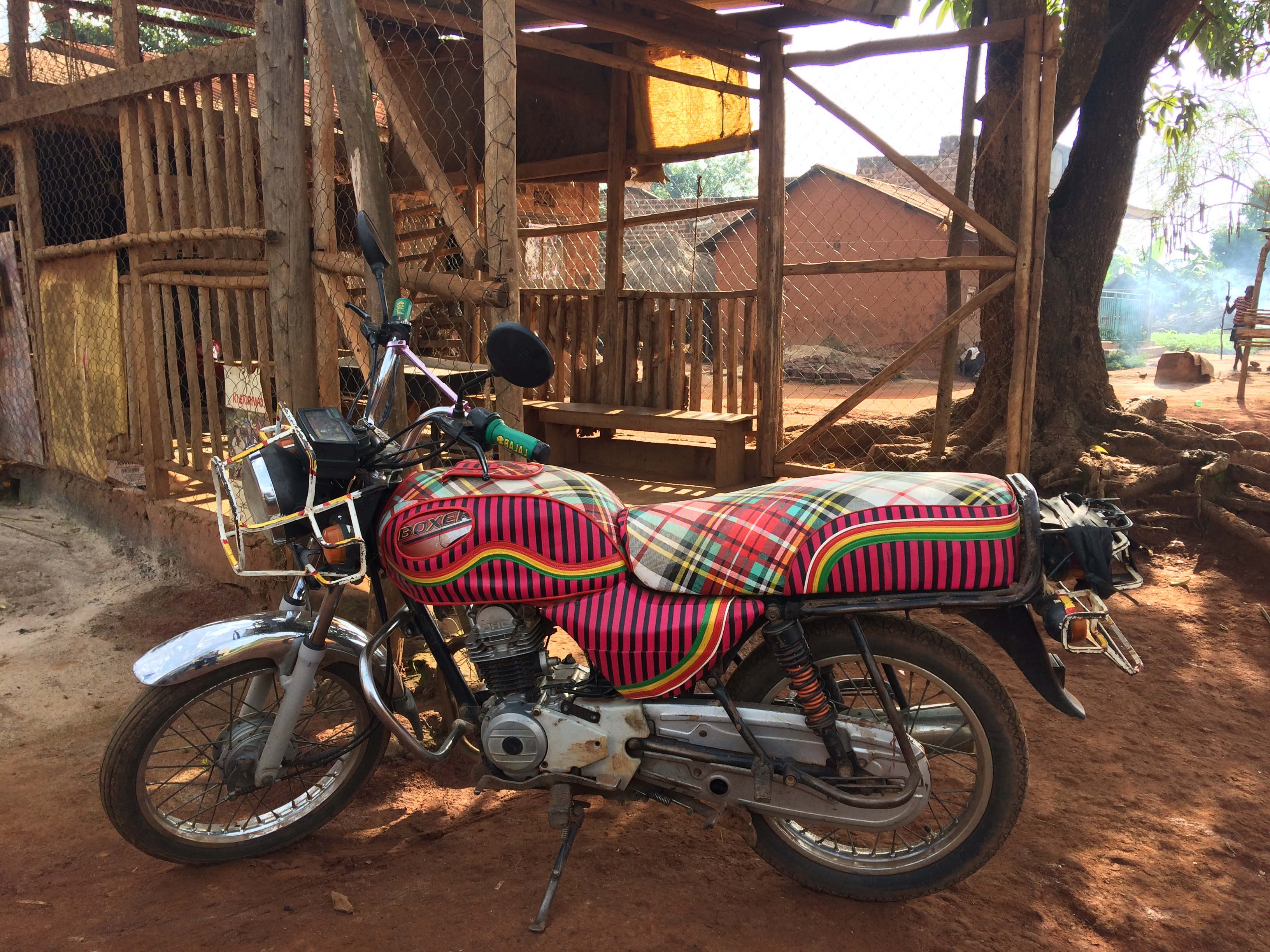 Boda-boda drivers take a lot of care in maintaining their vehicles. They also personalise them with paint and stickers. This mode of transport is becoming more regulated and safer with the introduction of "Safe Boda" where helmets are mandatory for both driver and passenger. This is an image with the theme "Africa on the Move or Transport" from: Uganda